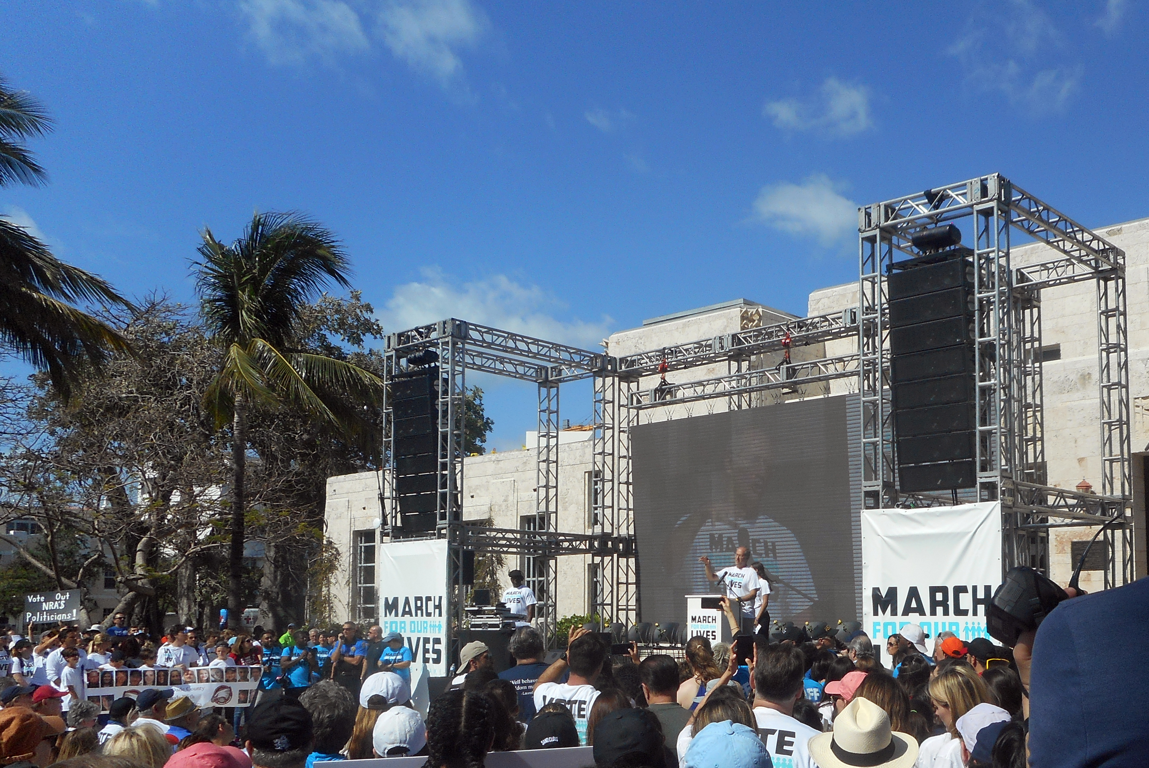 March for Our Lives Miami Beach - Mayor Dan Gelber speaking at rally in front of the Bass Museum